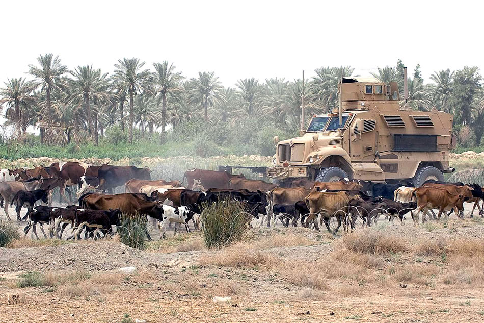 A herd of cattle surrounds a U.S. Army Mine Resistant Ambush Protected vehicle during Operation Fire Fortress in the Diyala province, Iraq, June 2, 2008. Operation Fire Fortress was launched to clear the influence of al-Qaida in the towns of Qubbah and Mukhisa in Iraq's Diyala province.